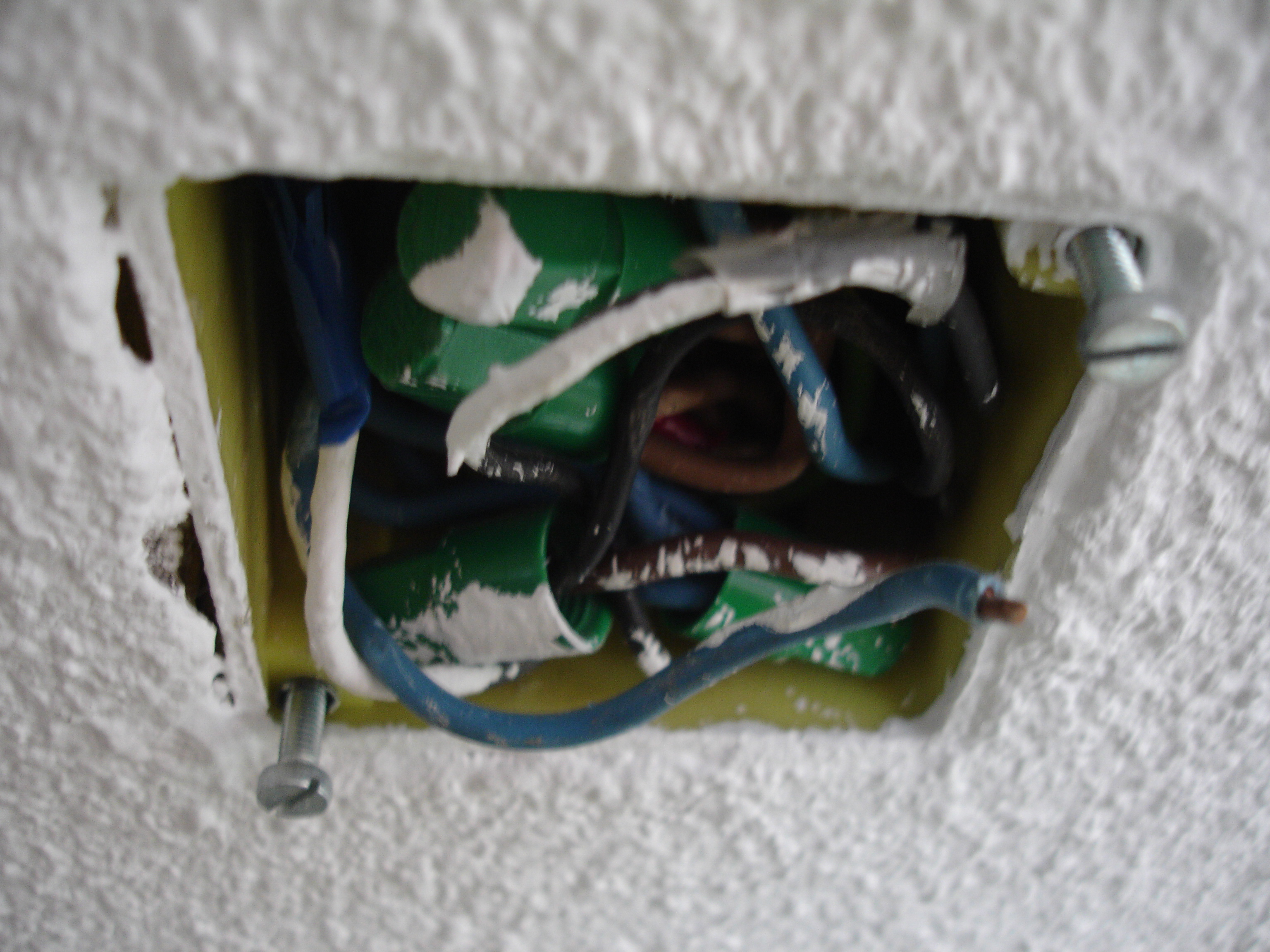 Flush-mounted junction box without a lid. (Associated with head turning clips.)